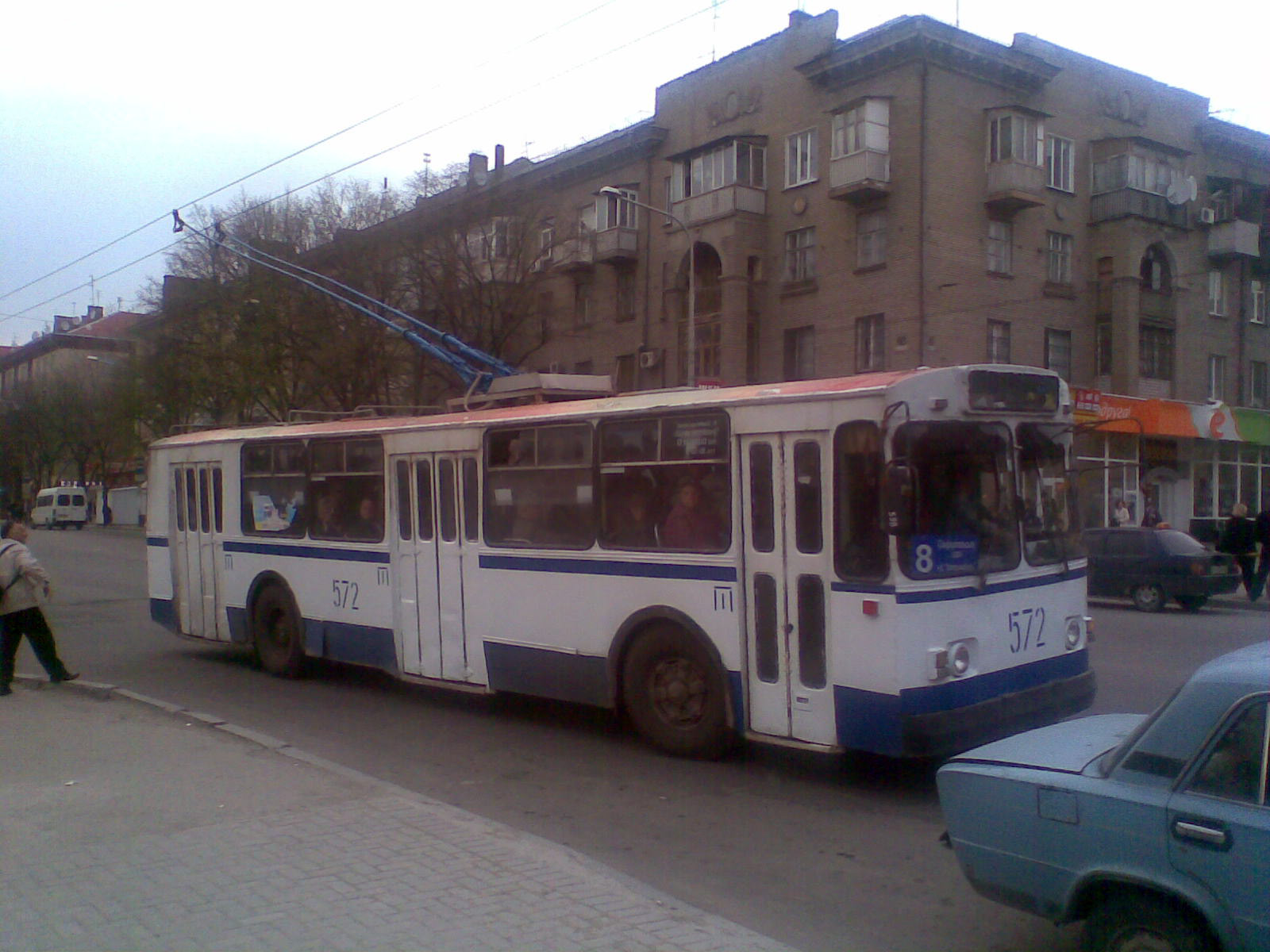 Trolleybuses in Zaporizhzhya